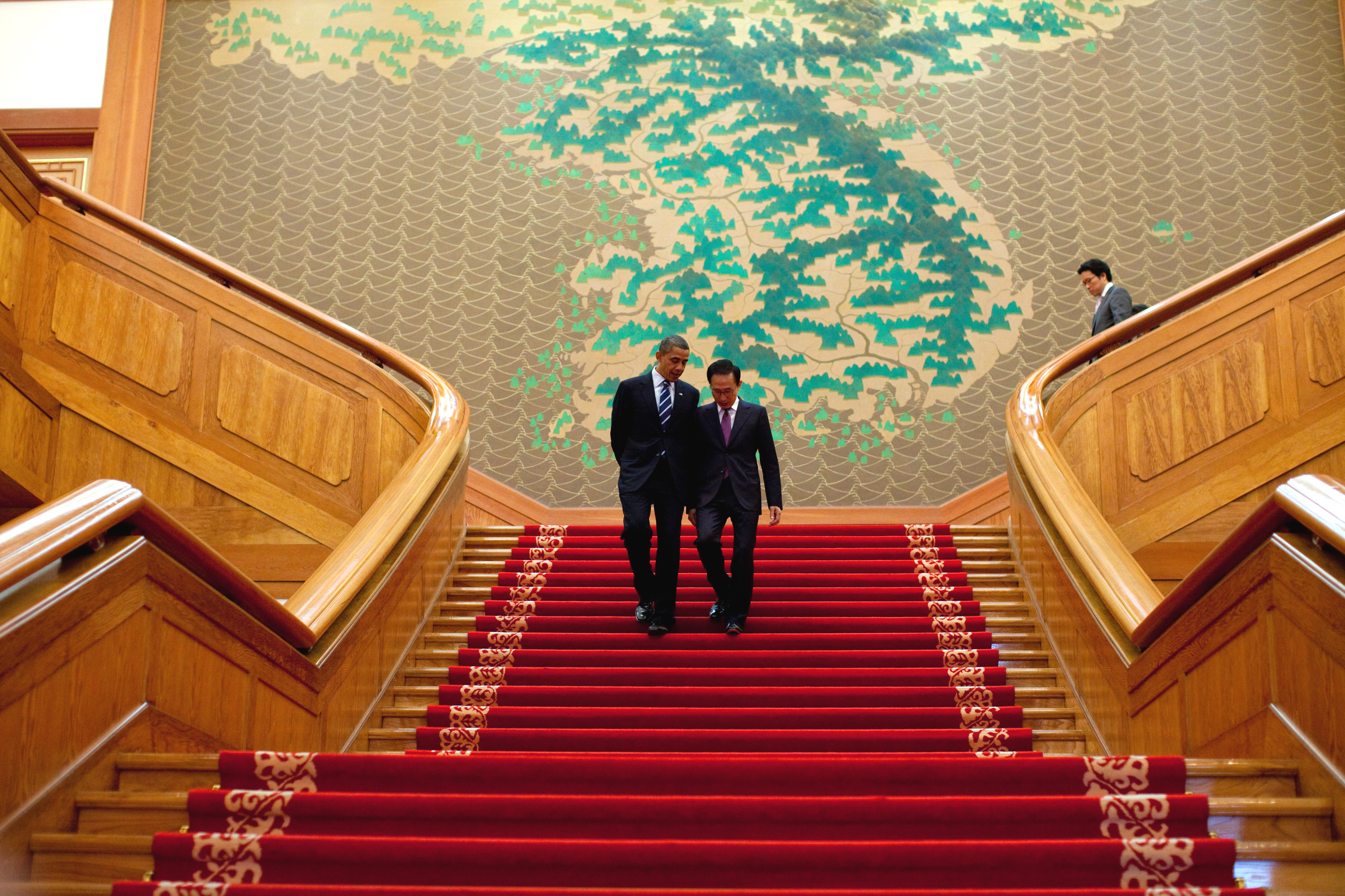 President Barack Obama and President Lee Myung-bak of South Korea walk together following a bilateral meeting at the Blue House in Seoul, South Korea, Nov. 11, 2010. (Official White House Photo by Pete Souza) This official White House photograph is in the public domain from a copyright perspective, so while restrictions such as personality or privacy rights may apply, in general, manipulations are allowed.